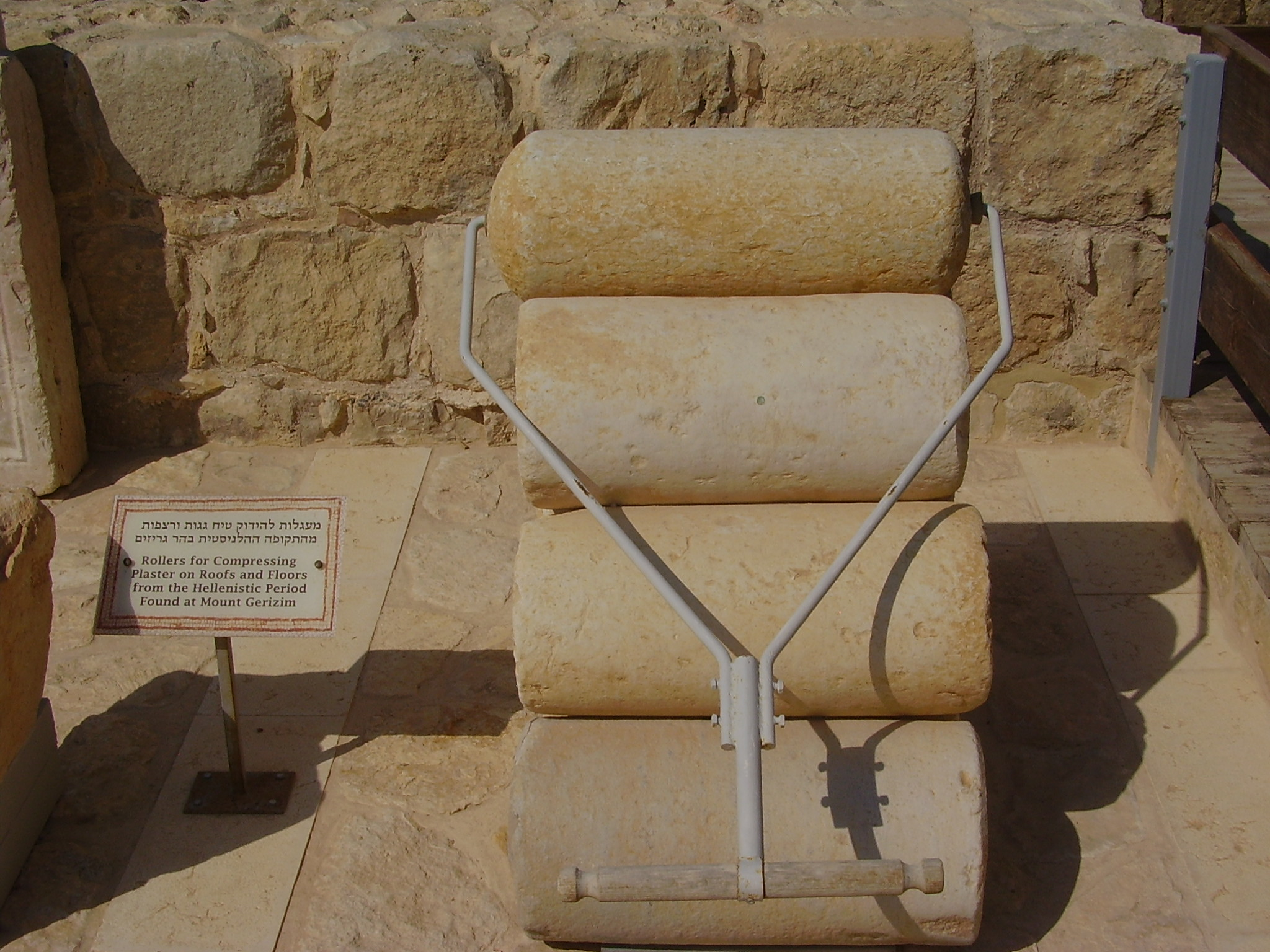 Roller for compressing plaster from the hellenistic period